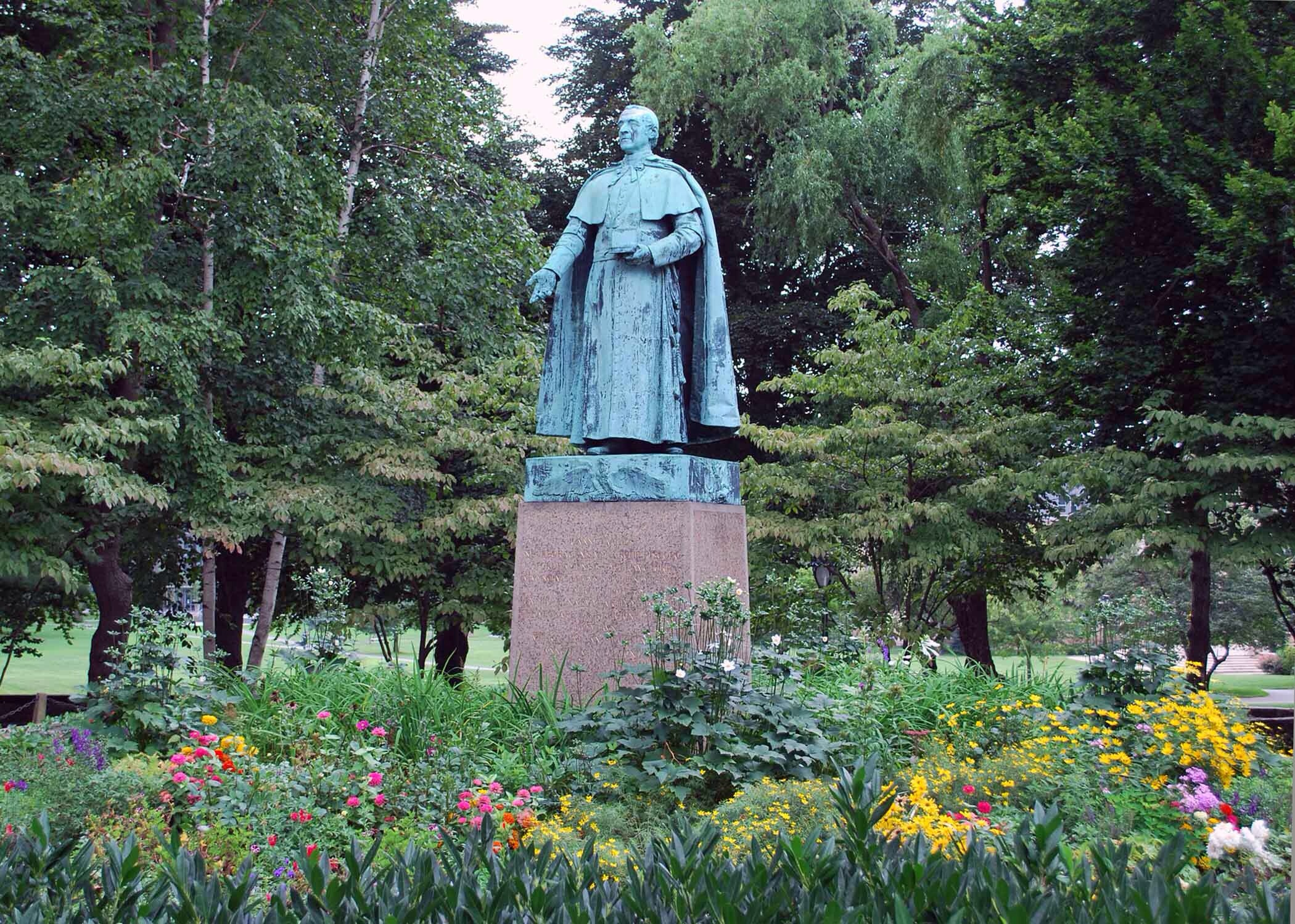 Fordham Manor, Bronx, NY, USA